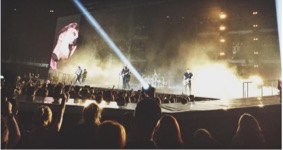 Busted performing in Glasgow during their Pigs Can Fly Tour